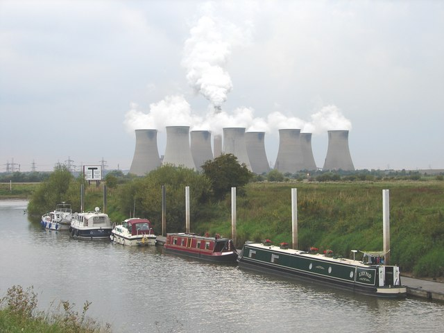 Cottam Power Station Original description: Cottam Power Station and Entry to Torksey Lock Note the T-Junction sign in the distance as river traffic joins the Trent.